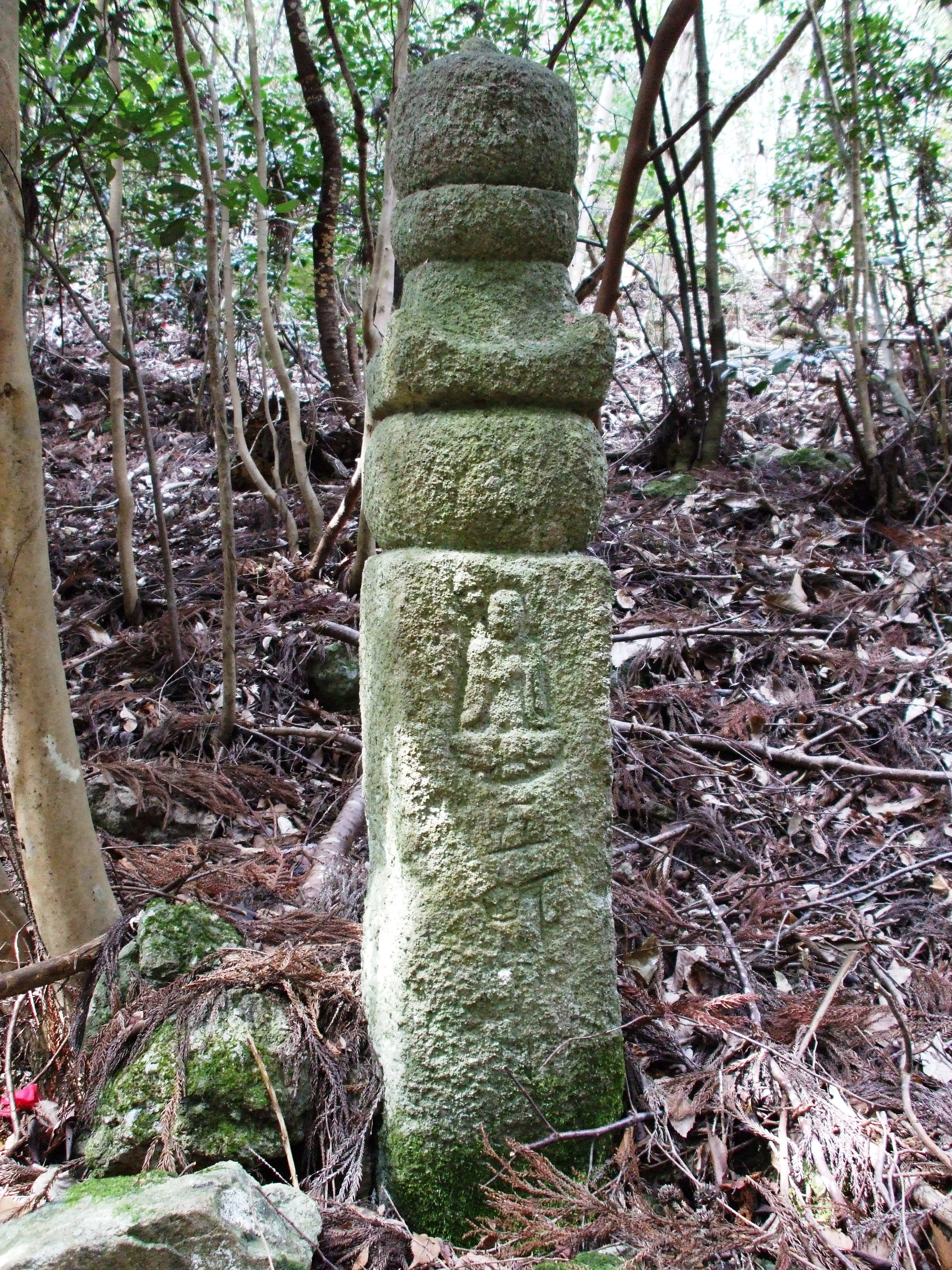 A Guidepost in Mount Ofuna, curved in the 14th century.